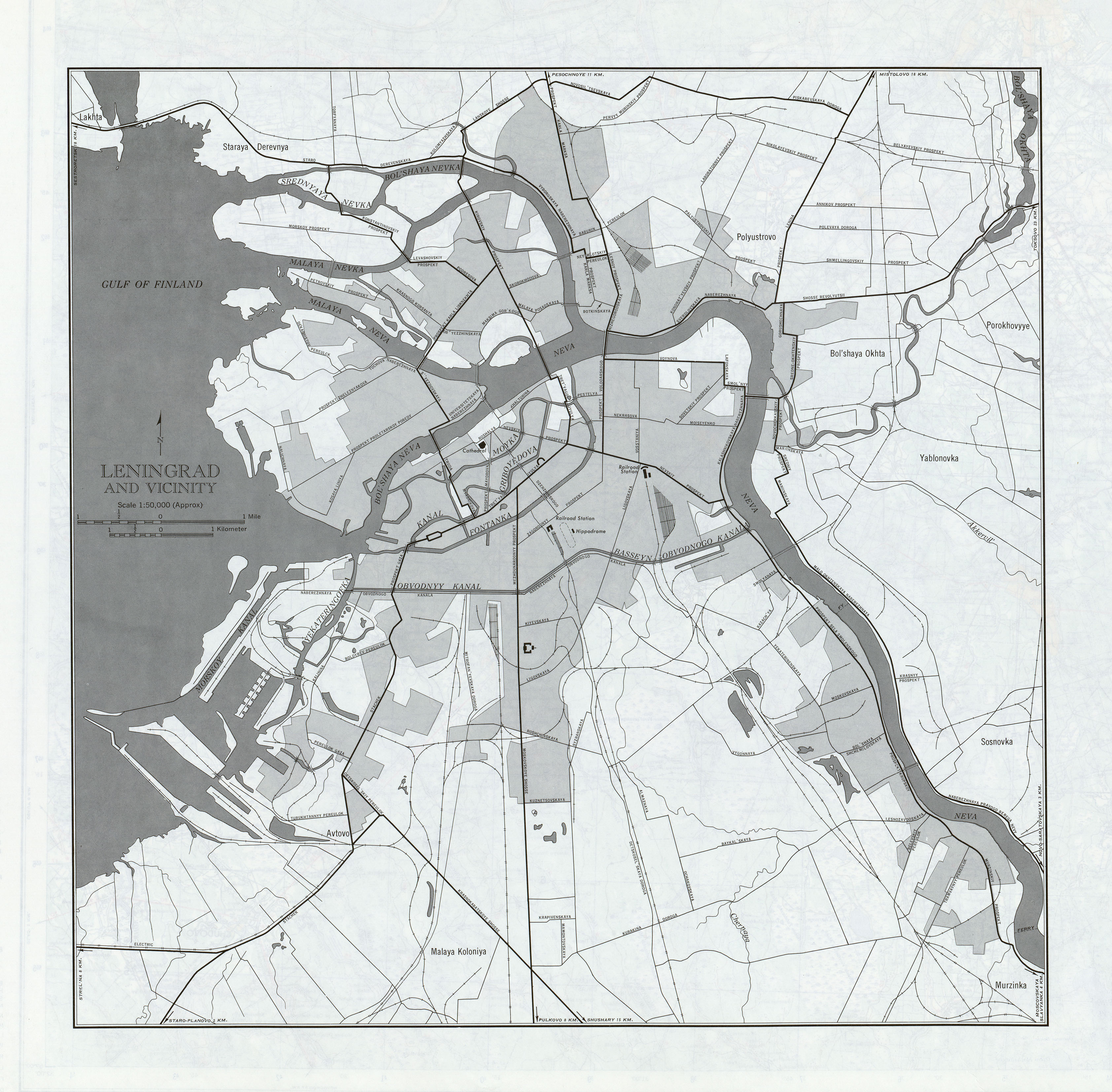 List from Eastern Europe AMS Topographic Maps. Series N501, U.S. Army Map Service, 1954